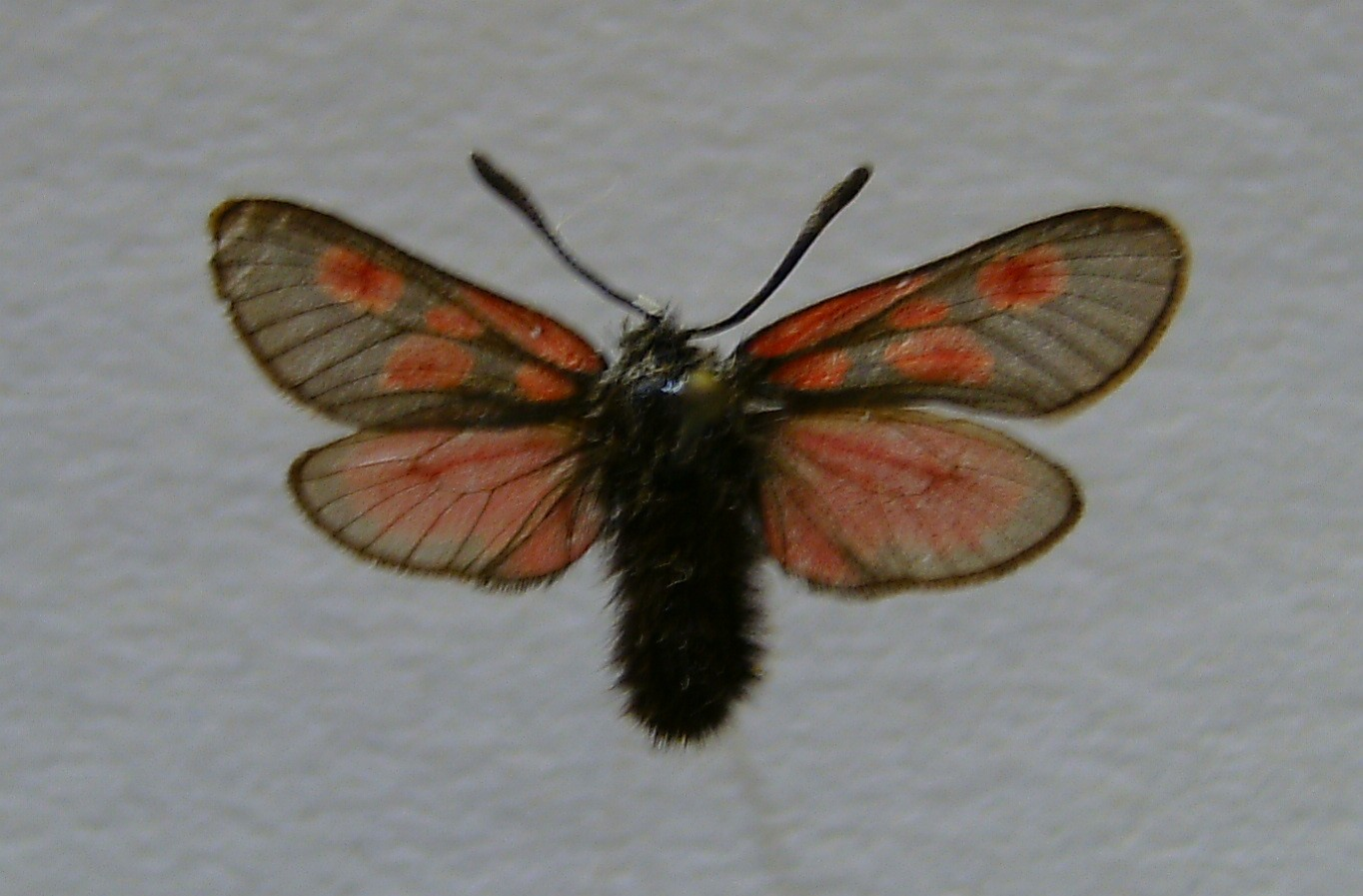 Zygaena exulans